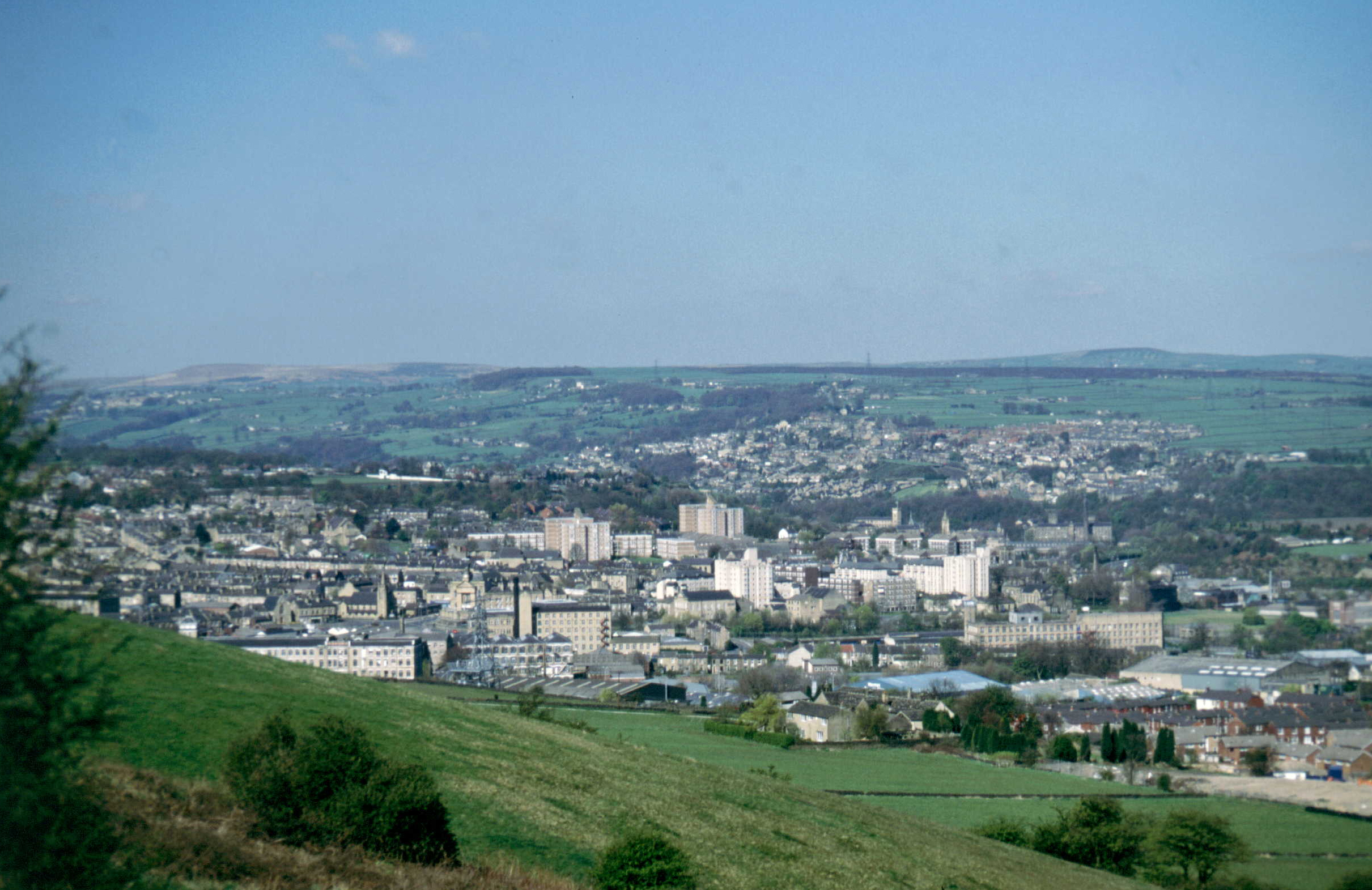 dave 59 took it myself